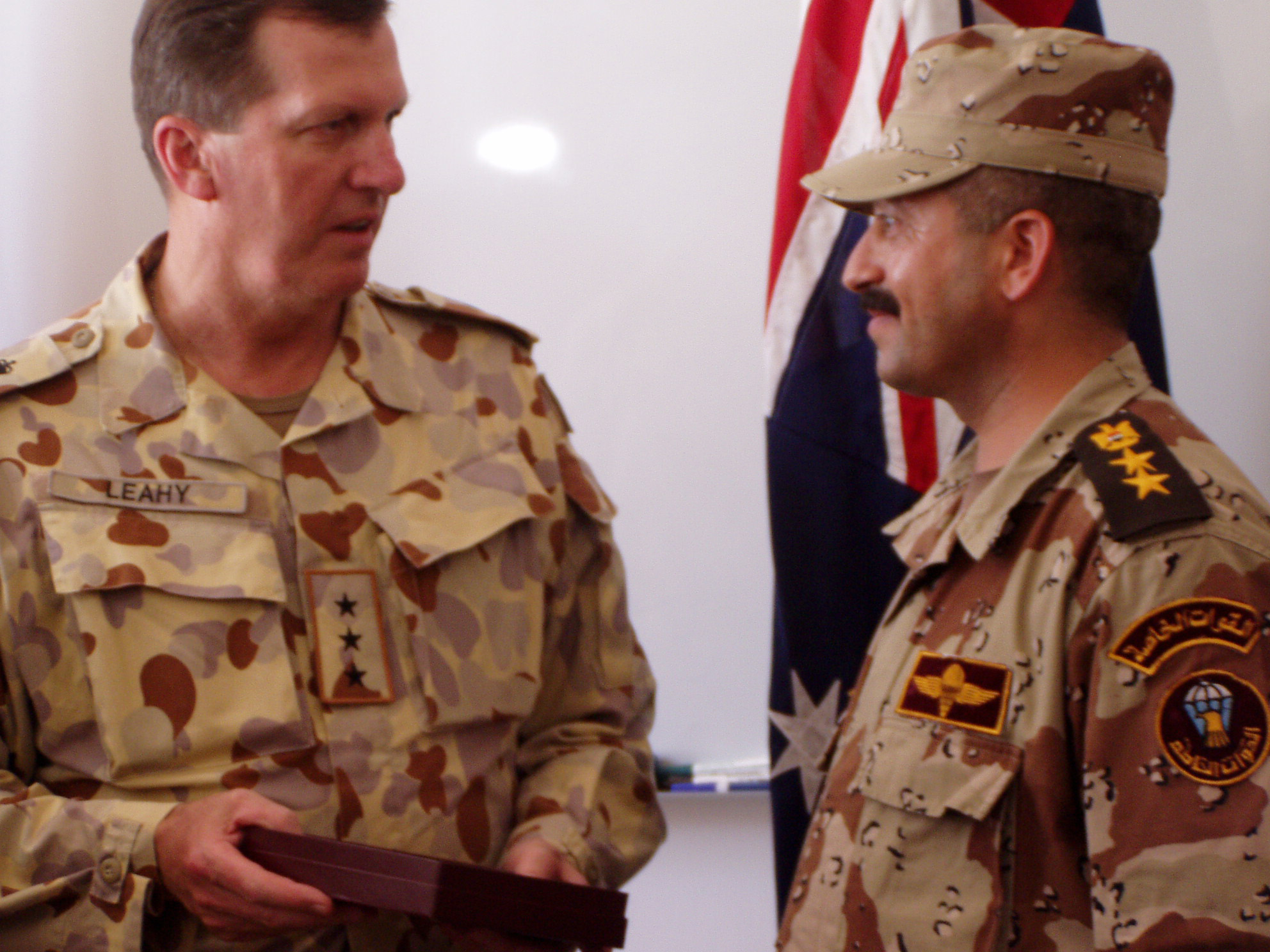 Chief of Army (Australia), Lt. Gen. Peter Leahy, left, presents an award to Col. Mohammed Fa'ek Raouf, commander, 2nd Battalion, 1st Brigade, 6th Iraqi Army Division, during a ceremony 11 July 2005 in recognition of his unit's efforts. Mohammed's men discovered the captured contractor during a cordon-and-search operation in Baghdad on 15 June 2005.